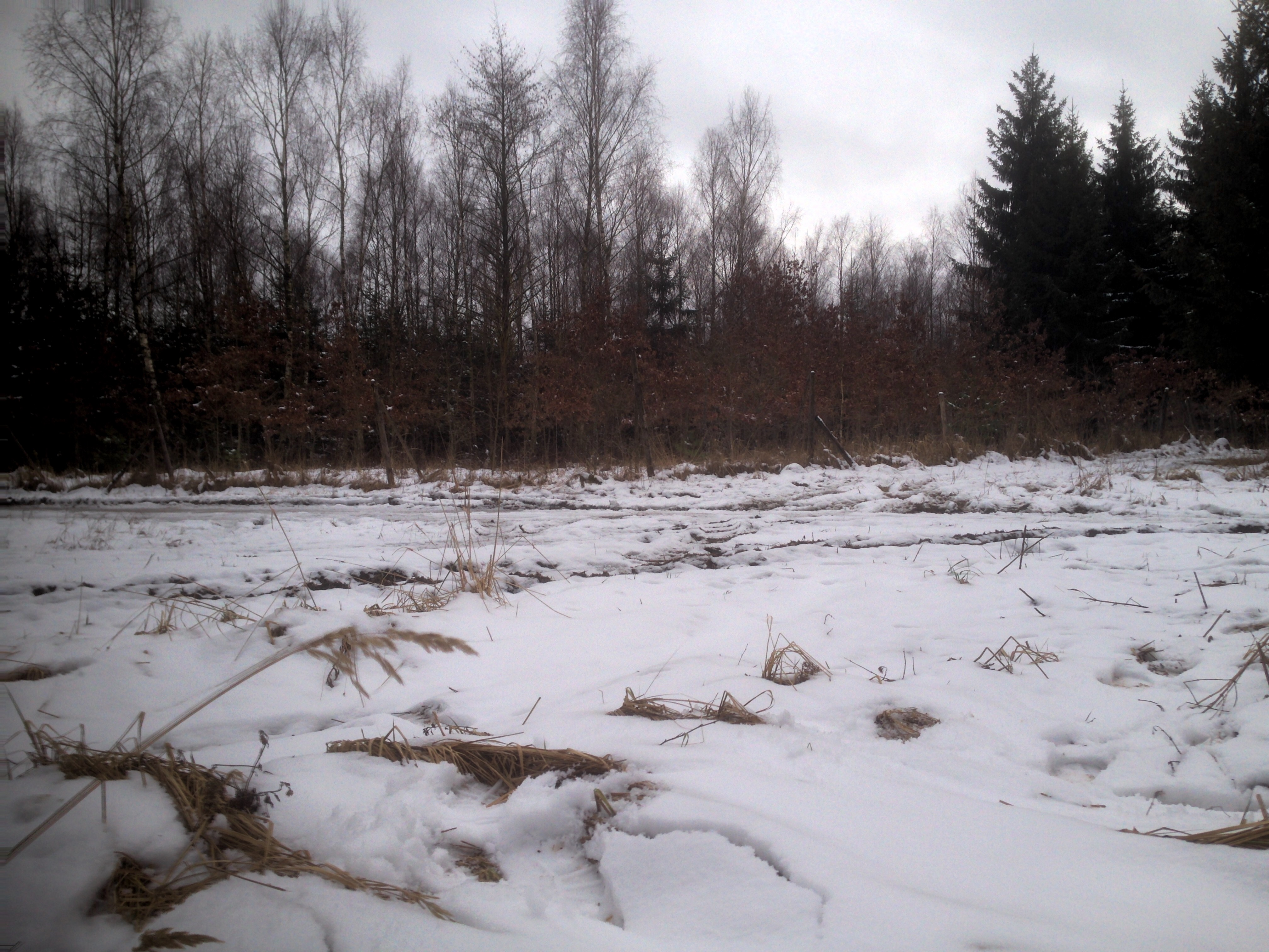 Picture on the Top of the Hornberg